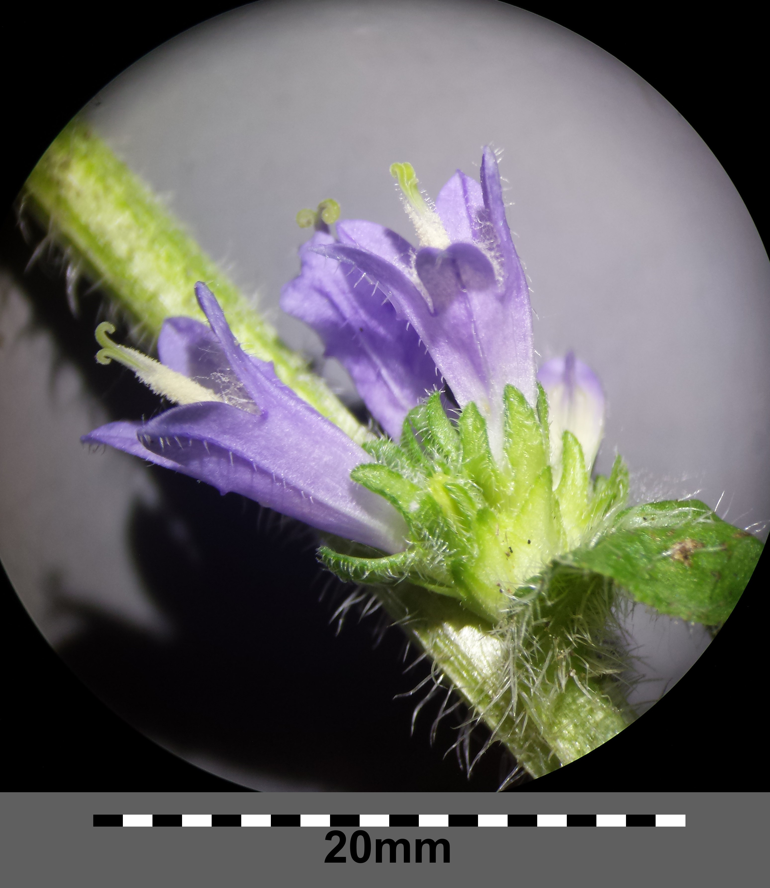 Inflorescence Taxonym: Campanula cervicaria ss Fischer et al. EfÖLS 2008 ISBN 978-3-85474-187-9 Location: Kreuttal, district Mistelbach, Lower Austria - ca. 250 m a.s.l. Habitat: wet trench within a wood